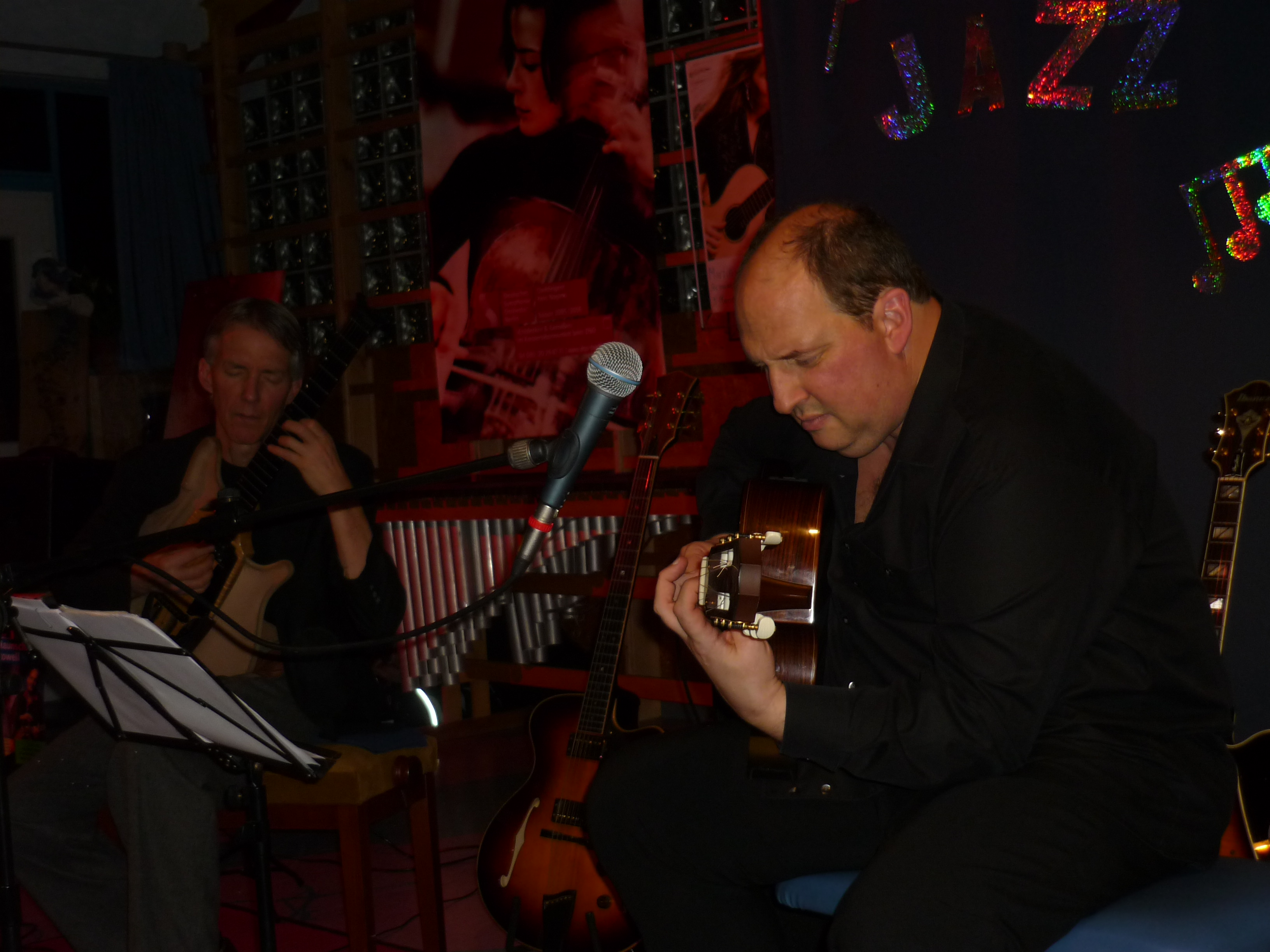 John Stowell and Frank Haunschild at a duo performance in Bad Marienberg, November 2010